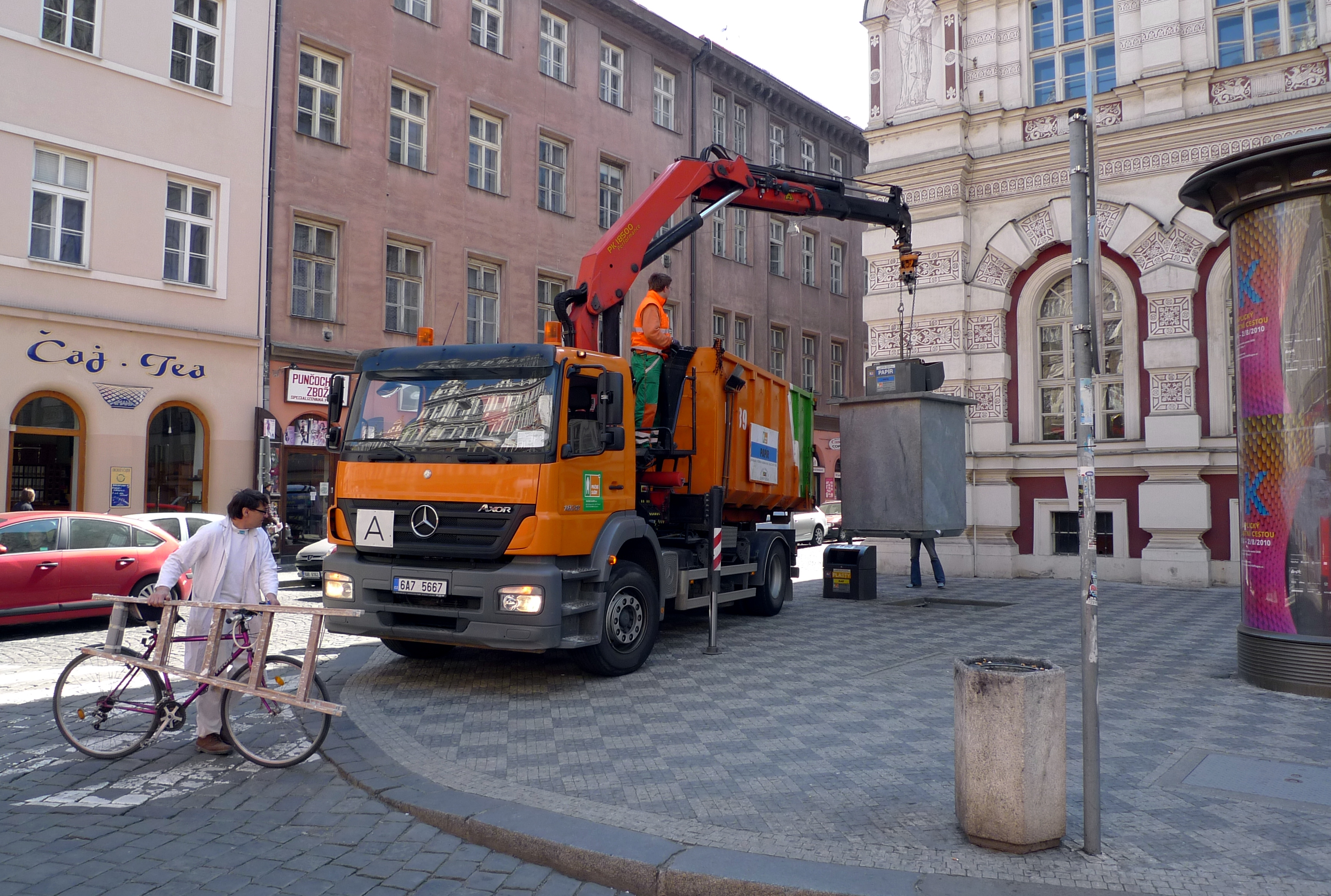 Underground trash waste collection truck in Prague